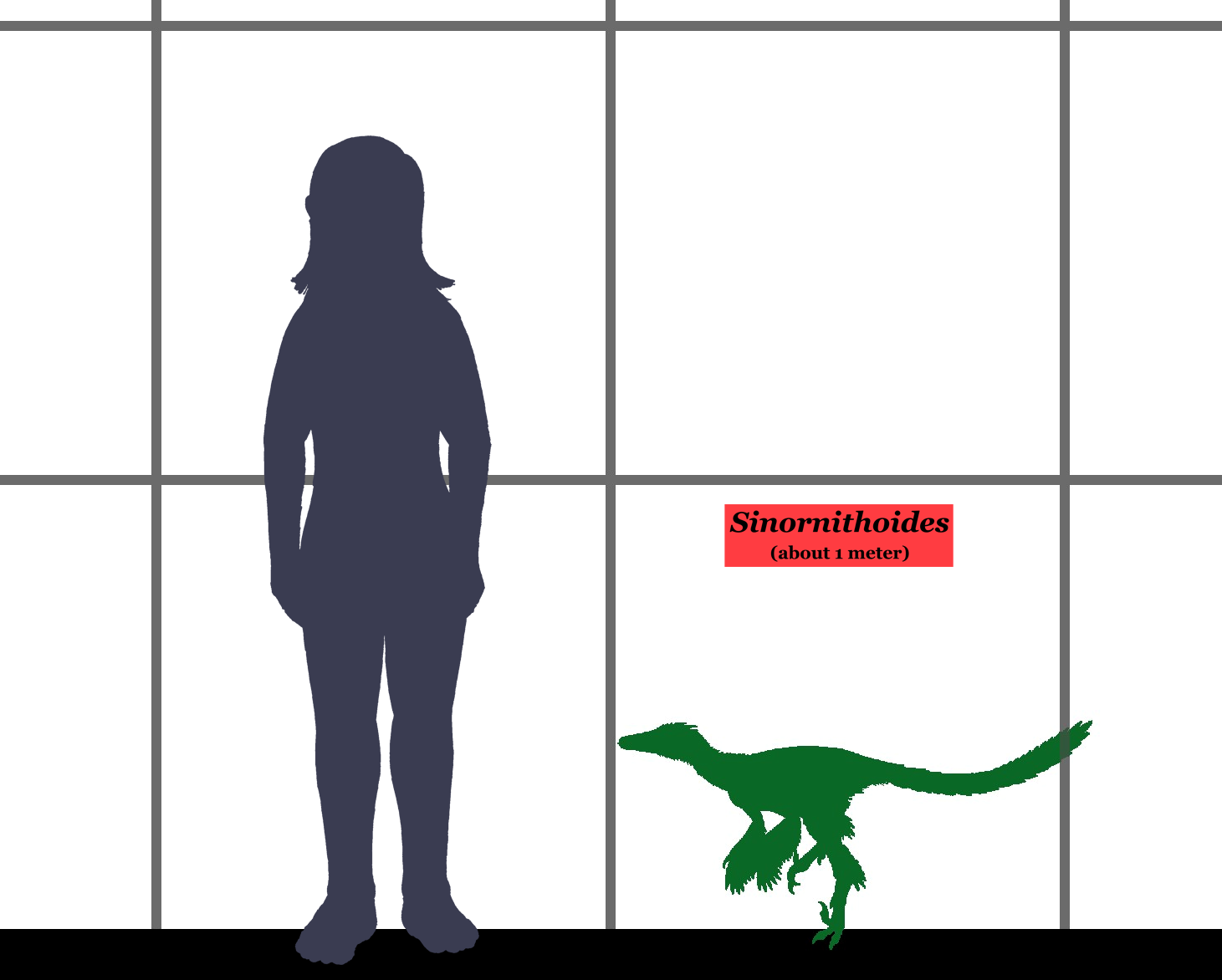 Size of the dinosaur Sinornithoides youngi and a human.